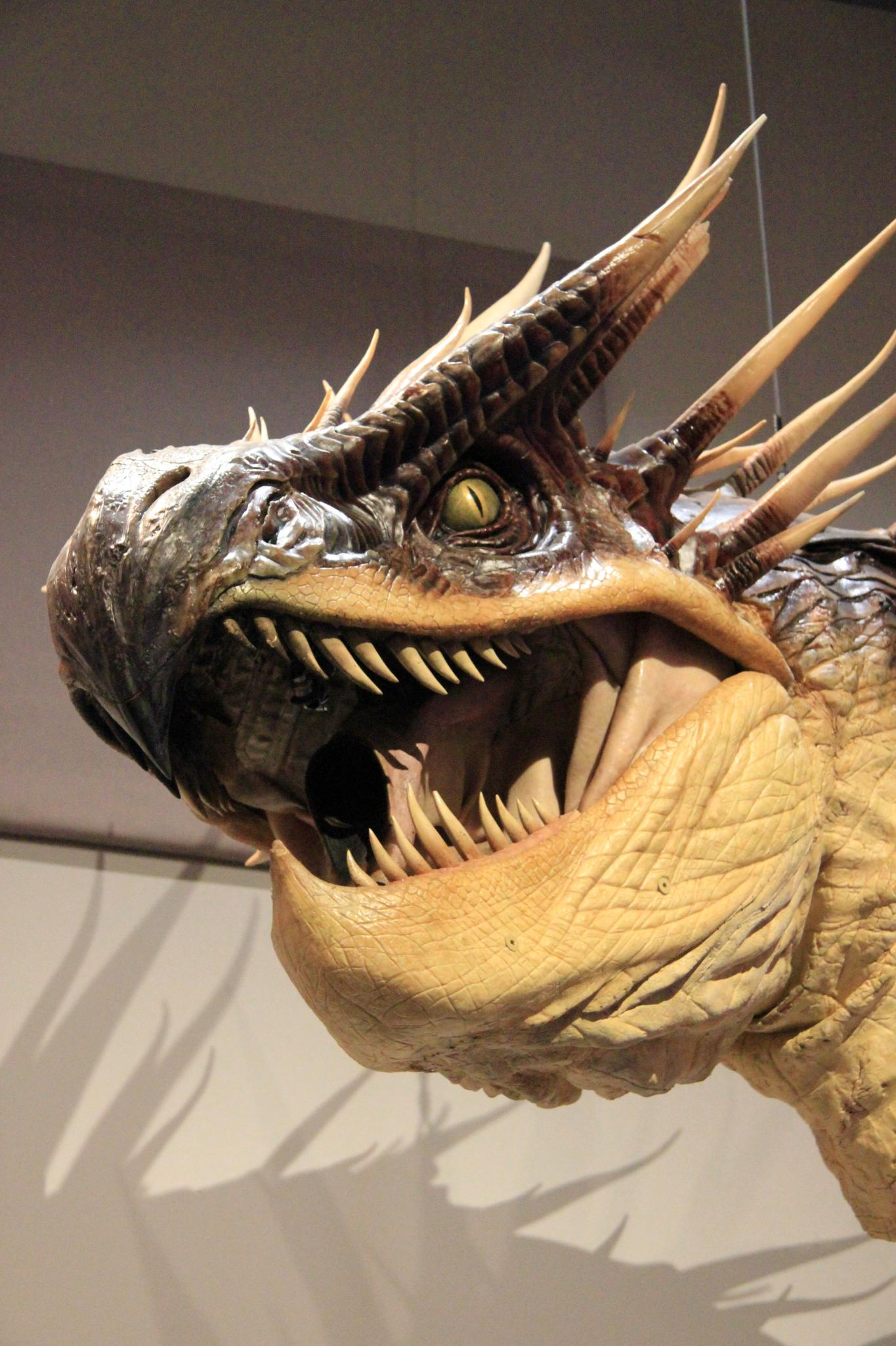 Warner Bros. Studio Tour London: The Making of Harry Potter.